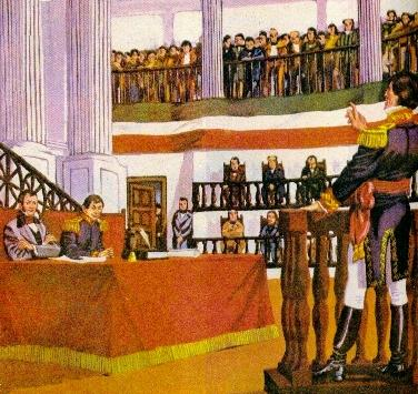 Guadalupe Victoria and Nicolas Bravo in the Second Constitutional Congress